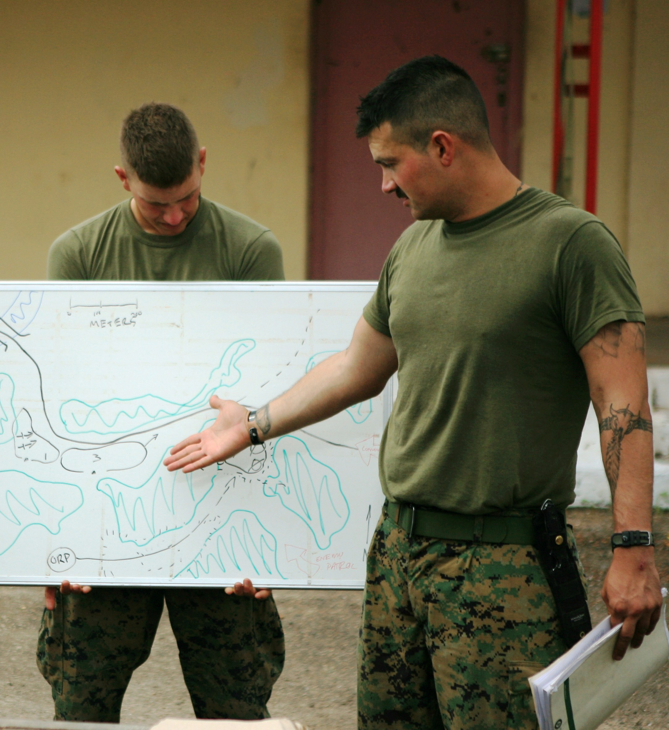 Sergeant Daniel Smith, USMC, conducts a tactical decision game for his Marines in May of 2011 during an exercise in Port Gentil, Gabon